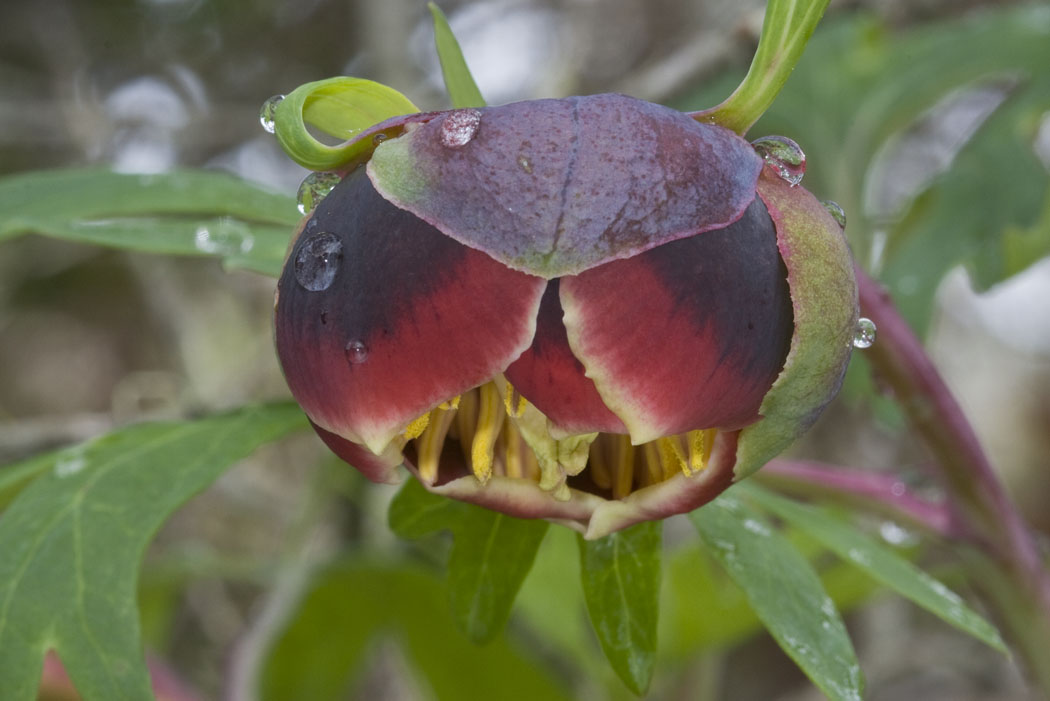 Paeonia californica California Peony